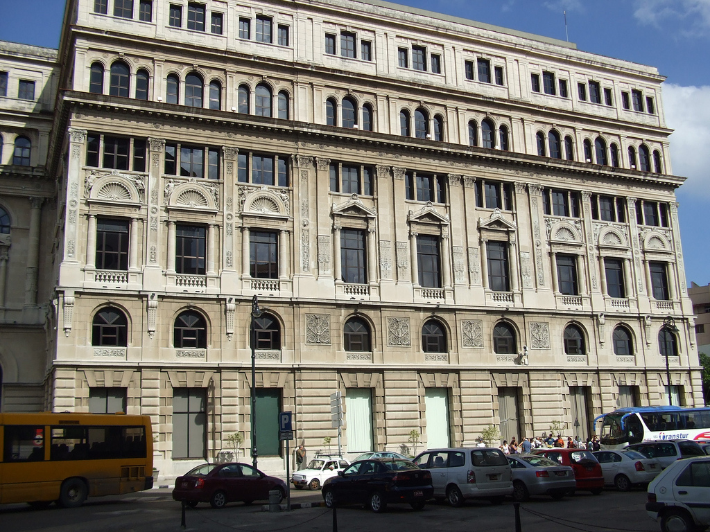 Lonja del Comercio de La Habana